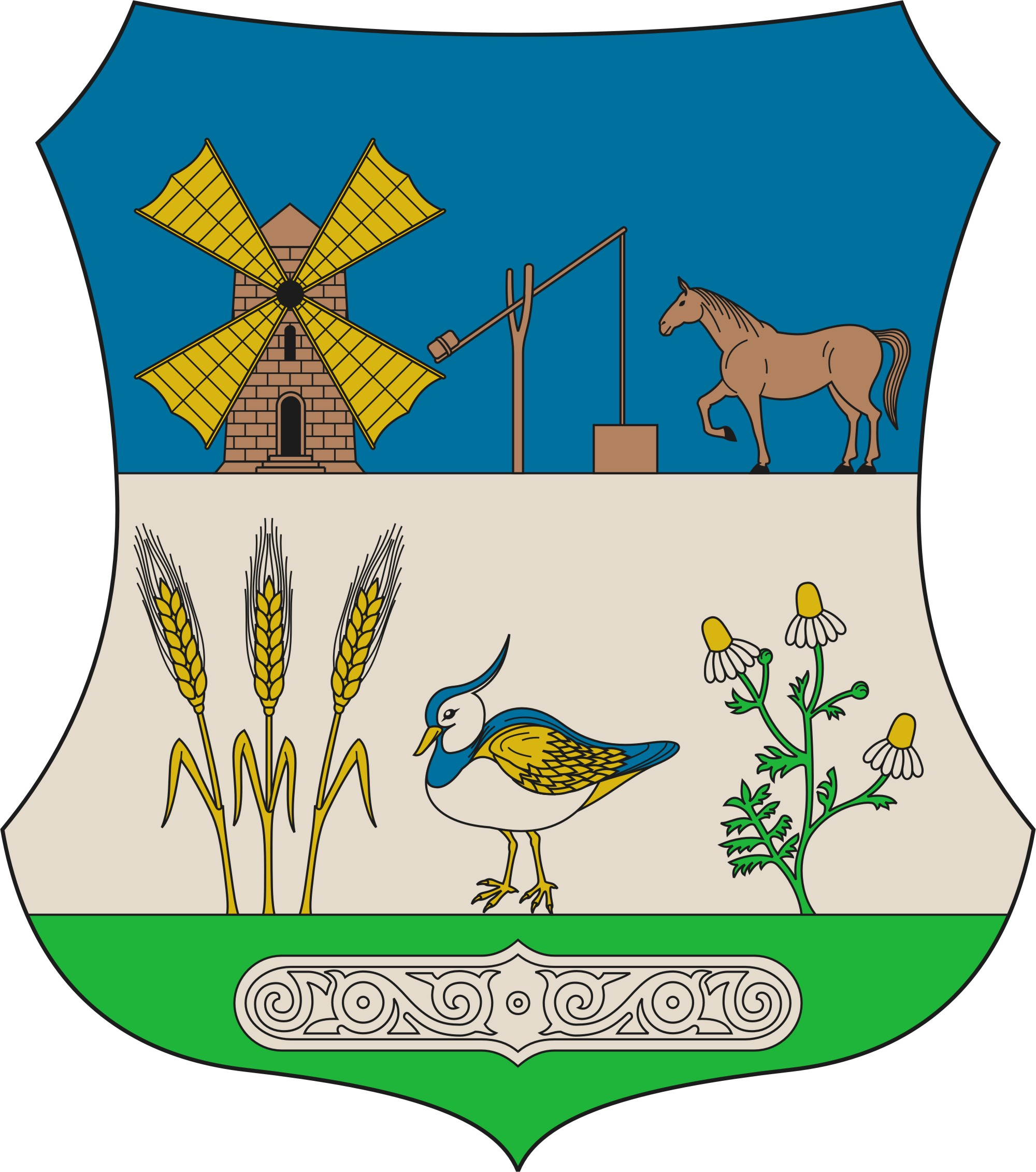 Coat of arms of Székkutas, Hungary